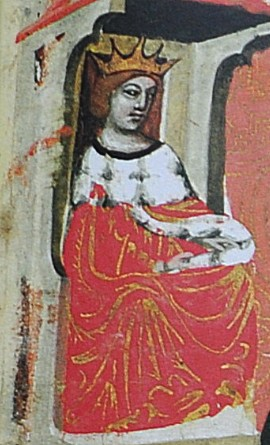 Henry I the Fowler